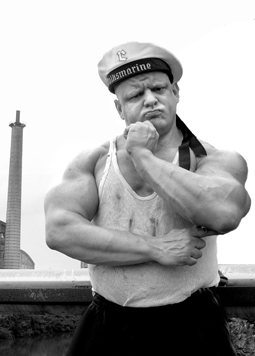 Rummelsnuff in the open air industry museum Rüdersdorf